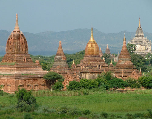 Bagan, Myanmar. Bagan became a central powerbase of the mid 11th century King Anawrahta who unified Burma under Theravada Buddhism.